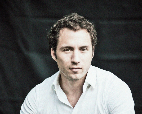 A portrait of Eric Volz